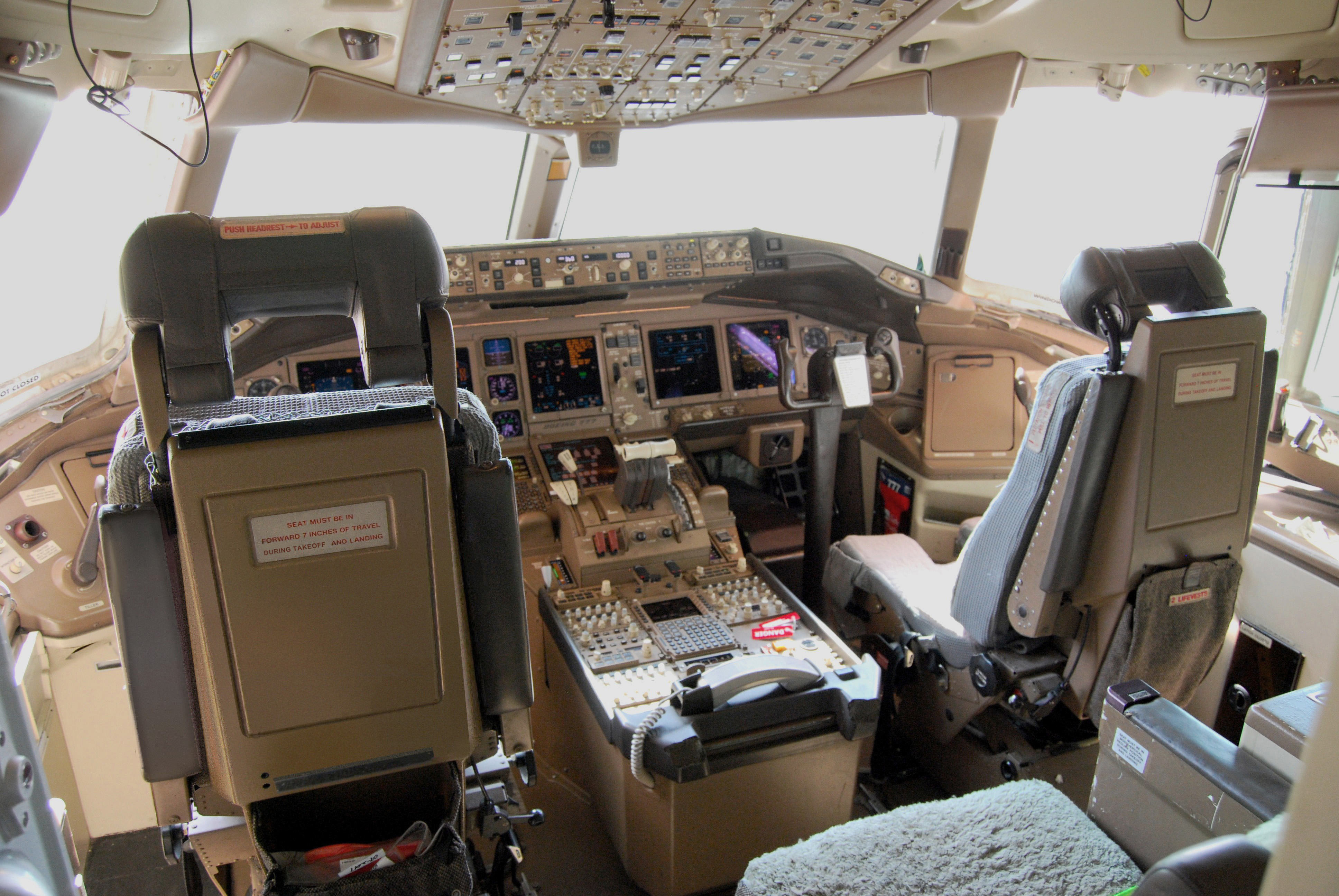 Cockpit1_DSC_0875